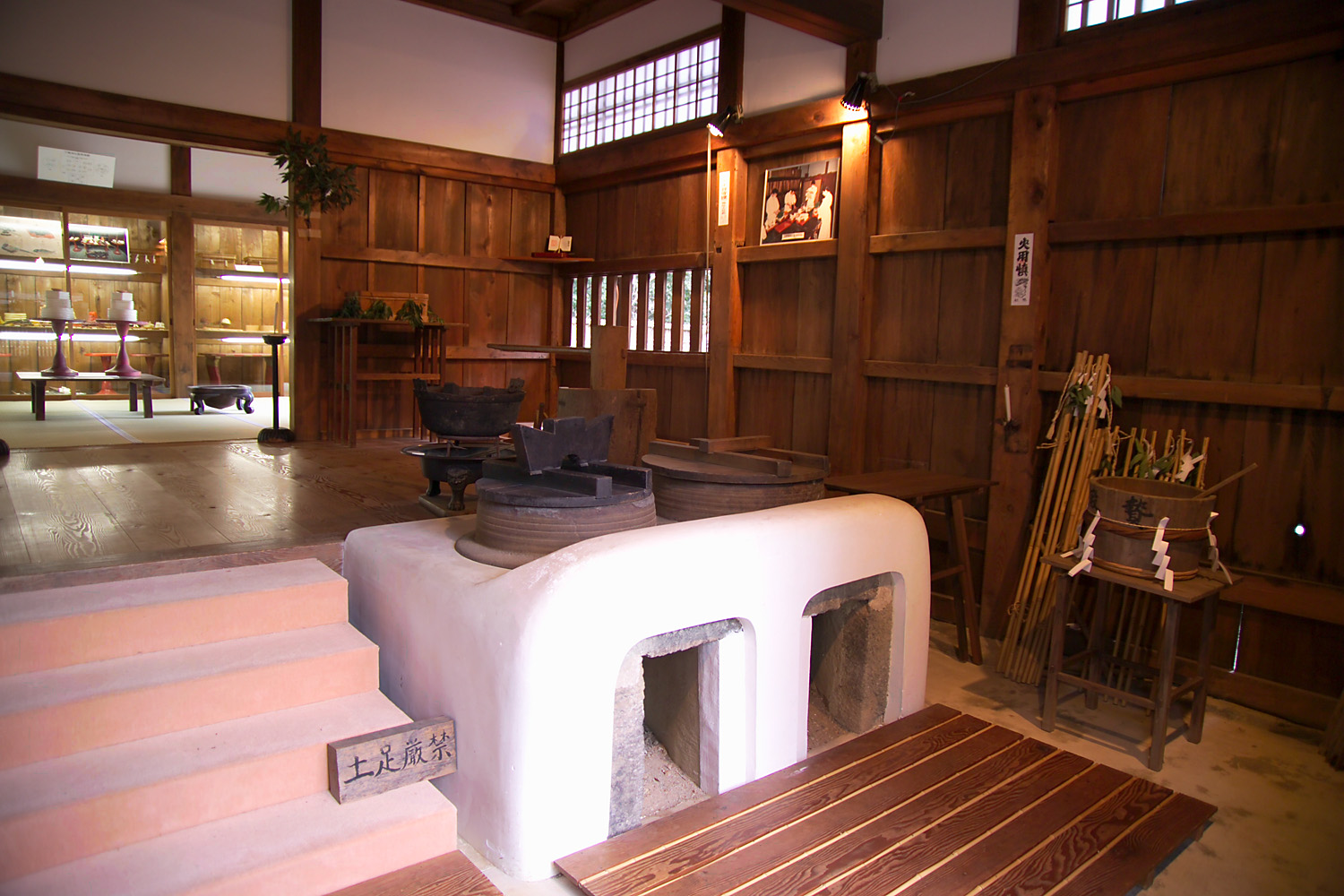 This is a kamado, the stove in a traditional kitchen of Japan. Almost all Japanese homes now have modern appliances, and the traditional kamado is rare in homes. This one is at the Shimogamo Shrine in Kyoto. I took the photo and contribute my rights in the file to the public domain; individuals and organizations retain rights to images in the file.